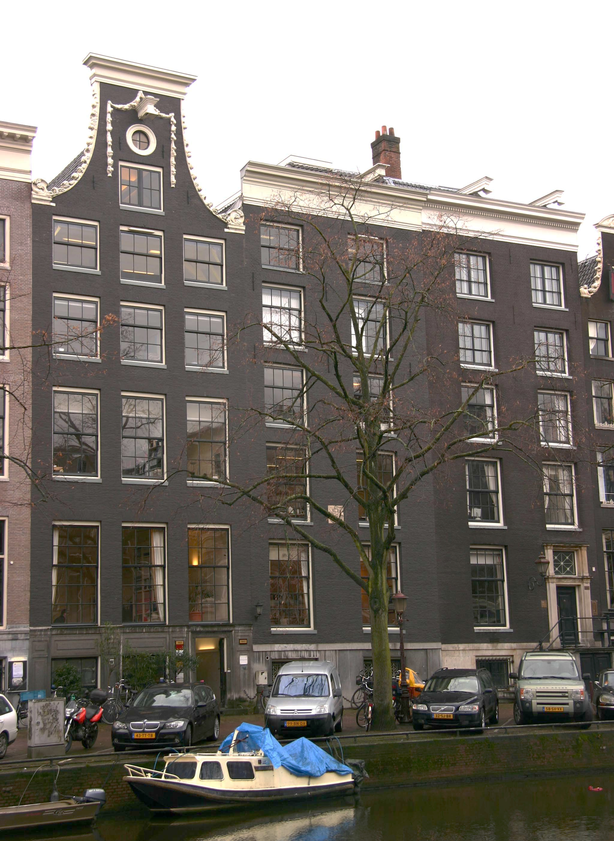 Keizersgracht 560-562. Law firm office.